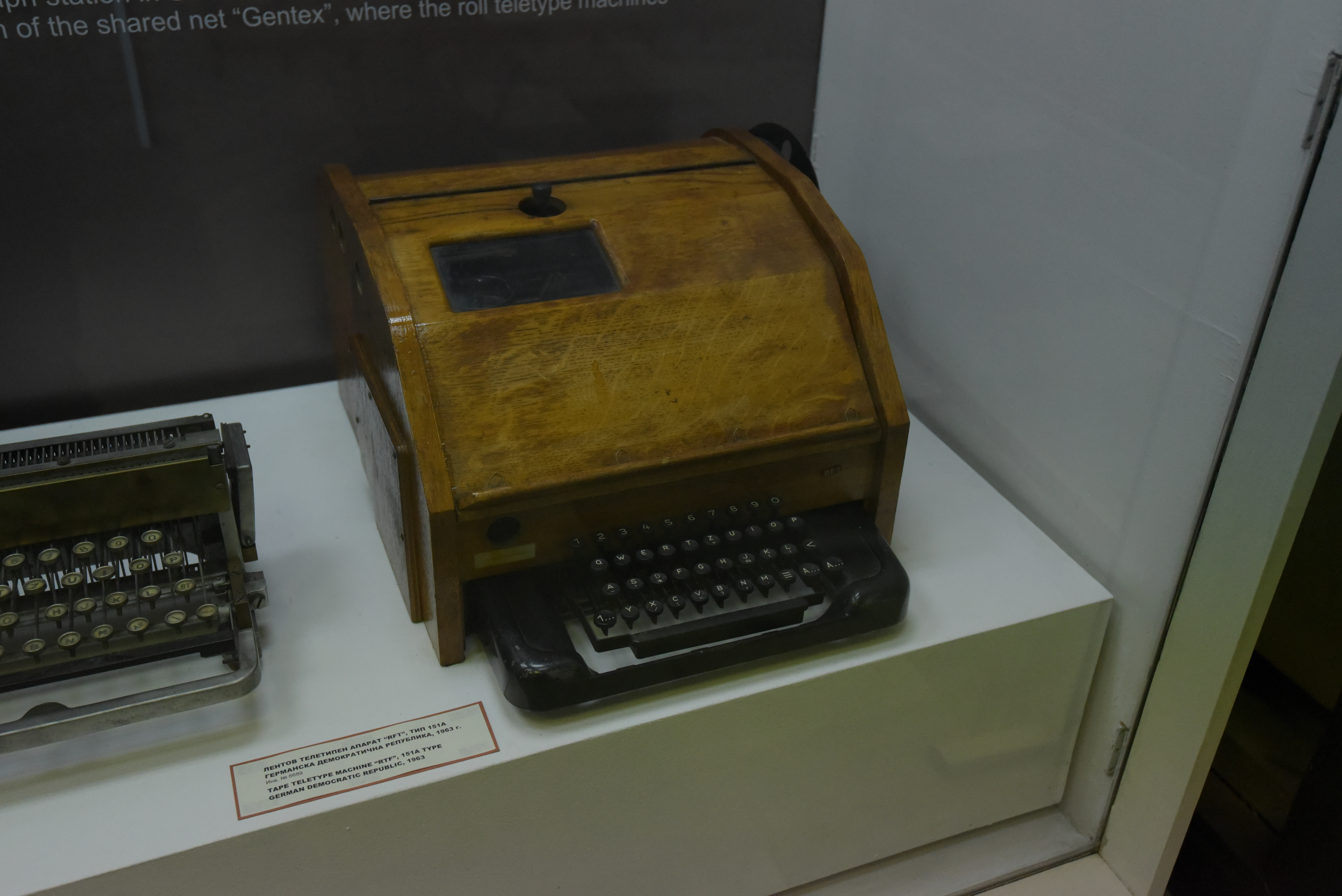 Teletype Exhibited at the National Polytechnic Museum, Sofia